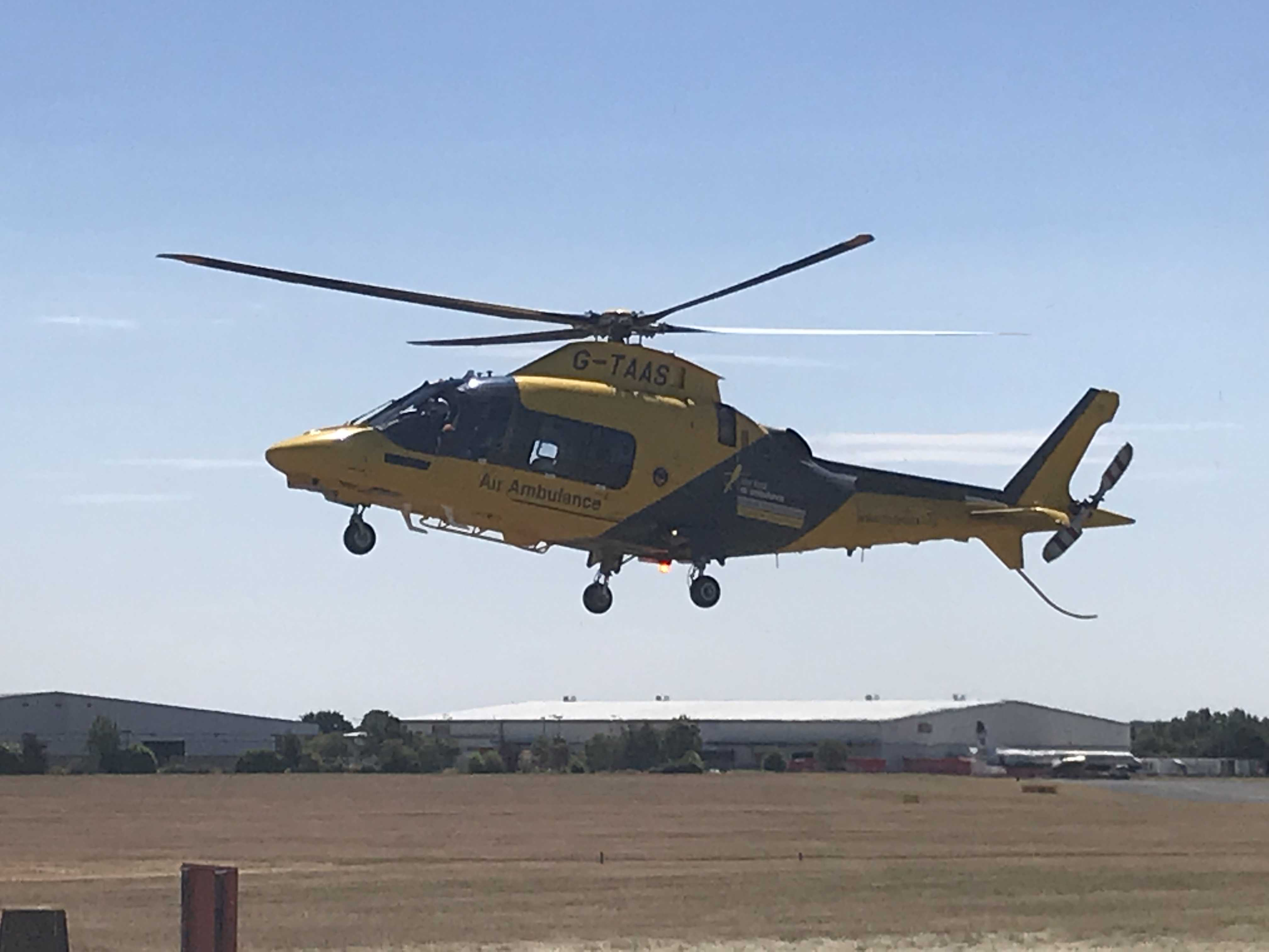 G-TAAS (Derbyshire, Leicestershire & Rutland Air Ambulance) in flight at Coventry Airport